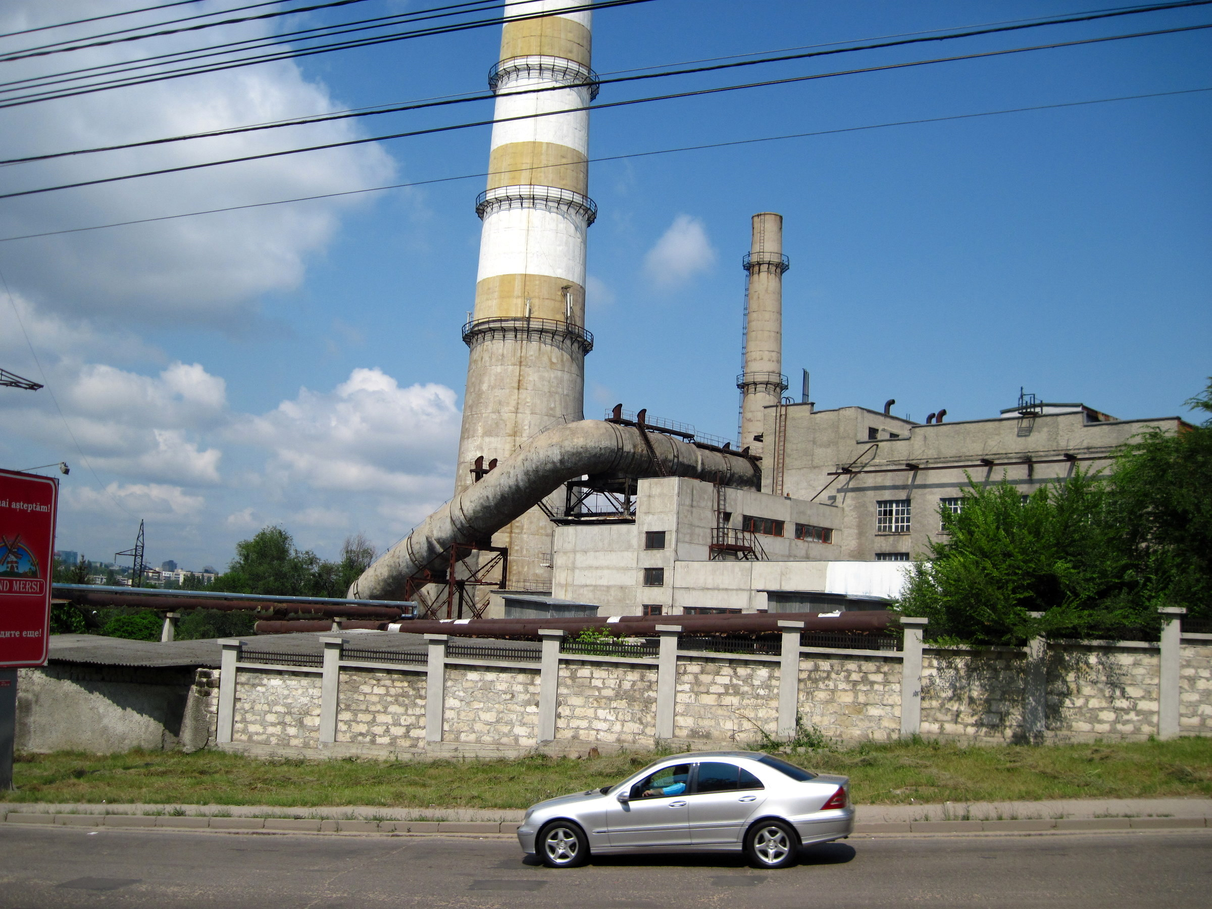 CET-1 Chimney, looking NW